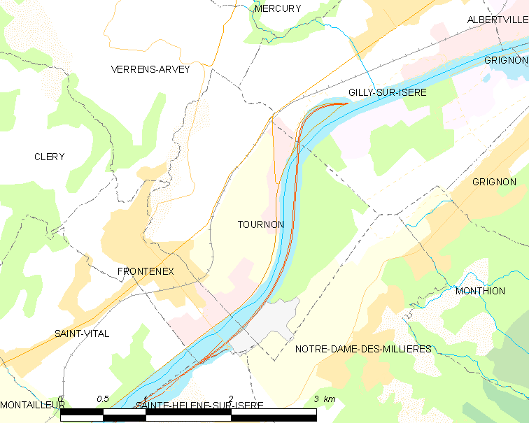 Map of French municipality Tournon